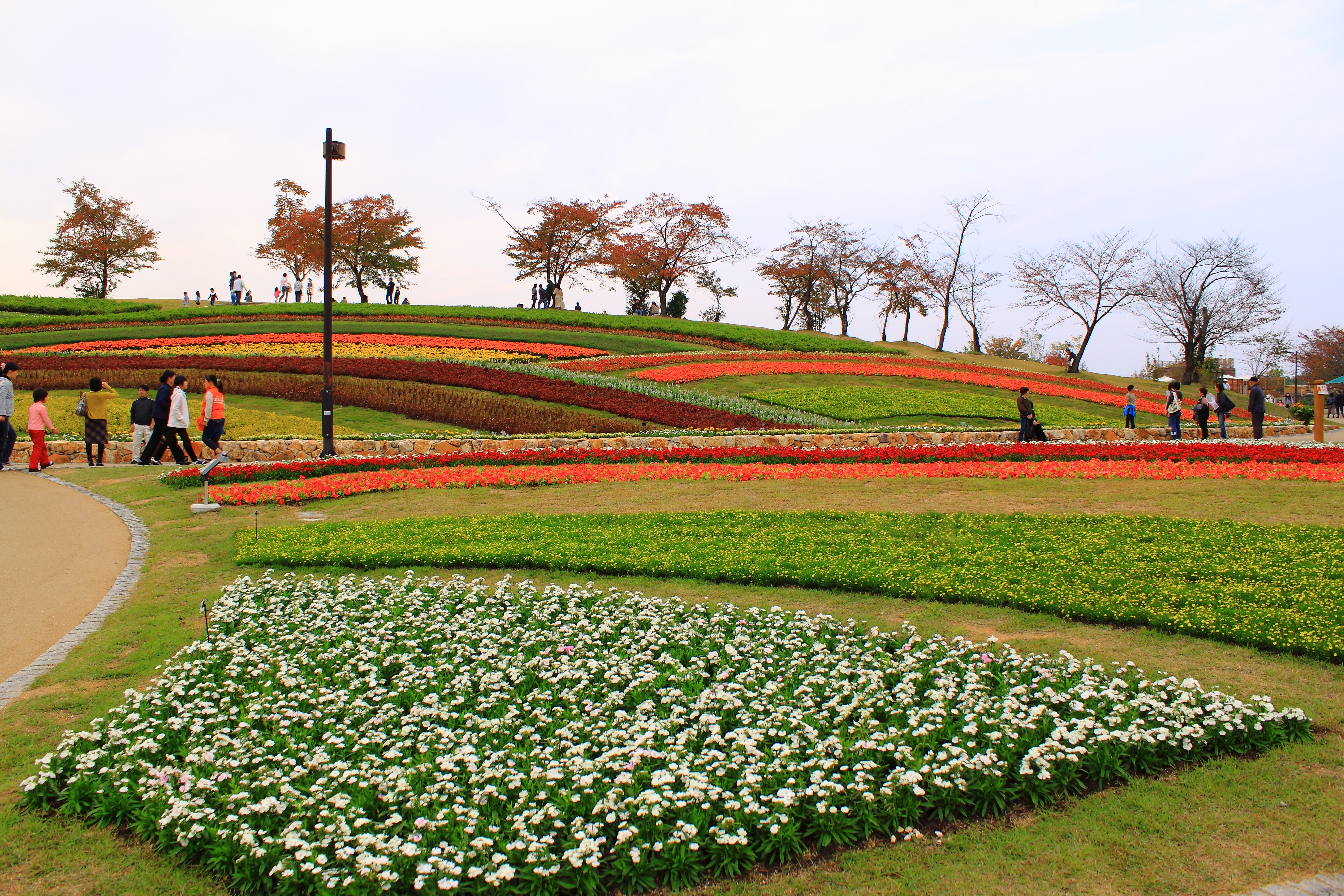 2010 National Urban Greening Fair (Umami Hill Park, Kawai - Kōryō, Kitakatsuragi District, Nara prefecture)